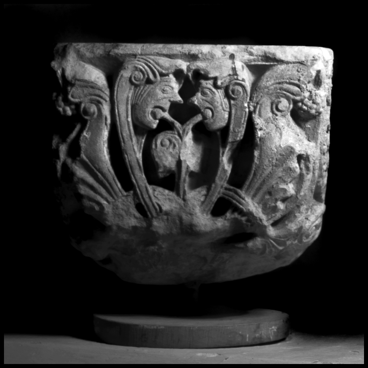 As seen in St Bartholomews Church in Hyde, Winchester.